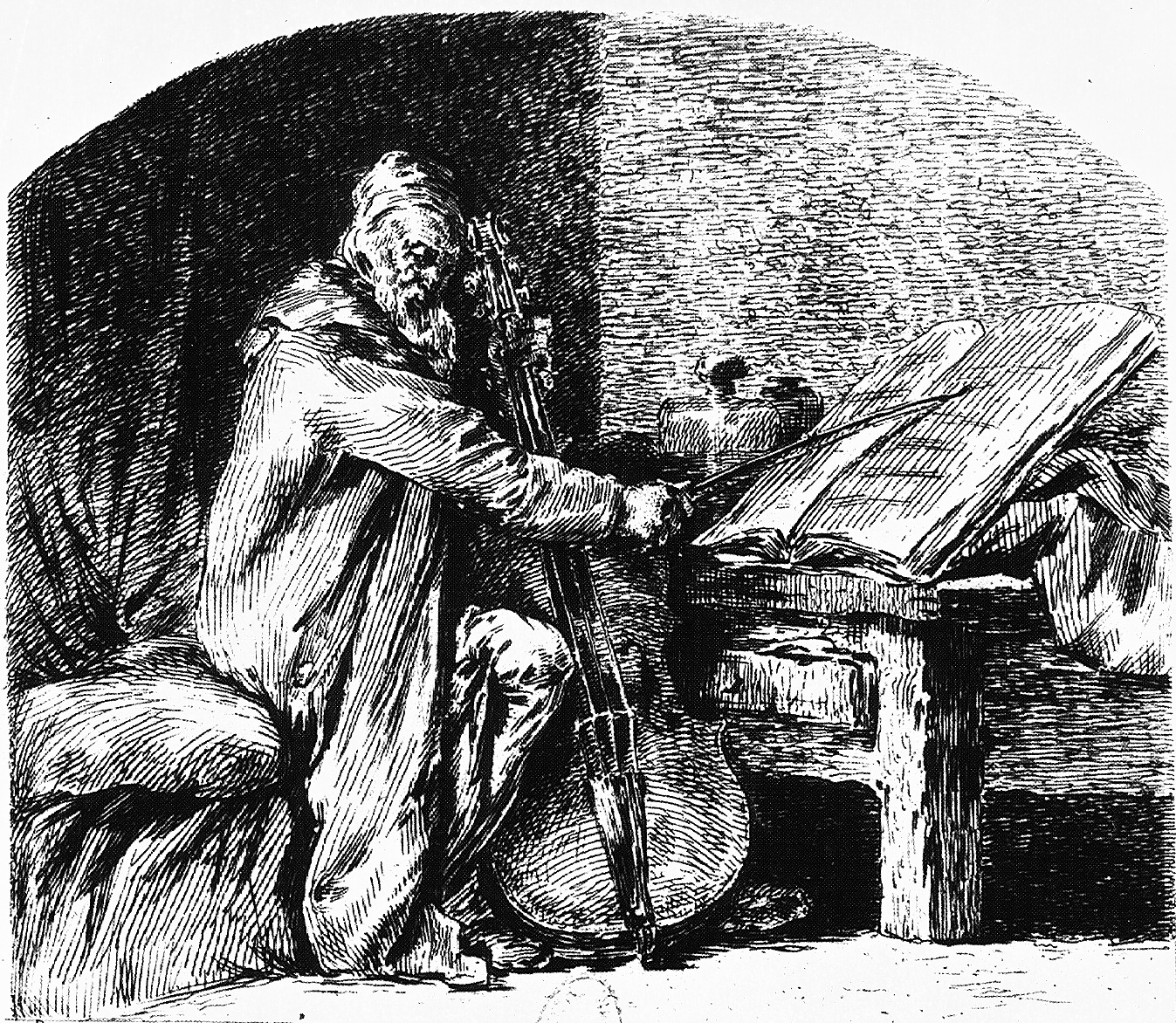 Martin Berteau with his cello